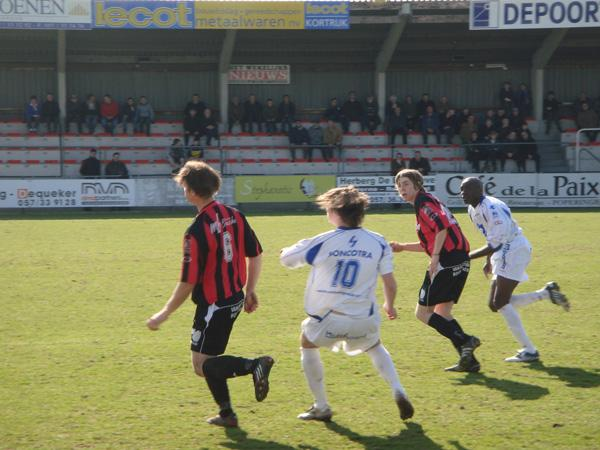 Don Bosco Stadium, Poperinge, Belgium. 29 March 2009, game KBS Popering vs KSC Blankenberge: 1-0